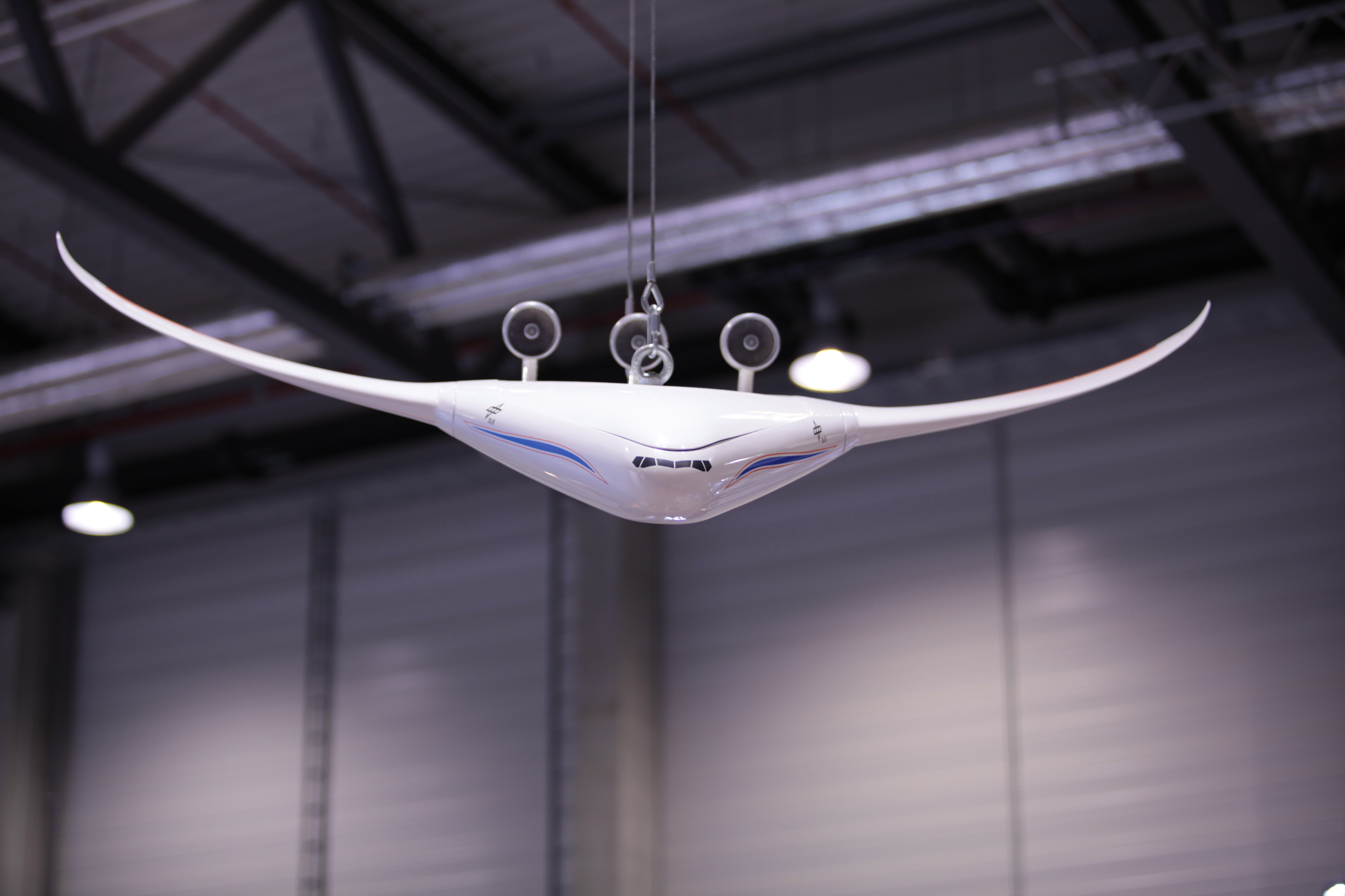 Für den zukünftigen Luftfahrtverkehr hat das DLR untersucht wie ein Blended Wing Body (BWB), mit einer deutlich anderen Form, sich gegenüber einem konventionellen Flugzeug in die Abläufe am Flughafen einfügt. Neben dem Modell demonstriert eine Animation das Potenzial, das der BWB den Passagieren und der Ladung bietet. Mehr Informationen: / For the future of air transport, DLR has investigated how a blended wing body (BWB) aircraft, with its significantly different configuration, compares with conventional aircraft for integration within airport operations. In addition to a model, an animation demonstrates the potential that BWB offers for passenger and freight transport.